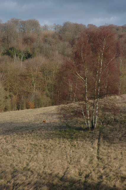 Silver Birch on Cranham Common Silver birch tree on Cranham Common viewed from the road above the village. Buckholt Wood can be seen in the backbround.